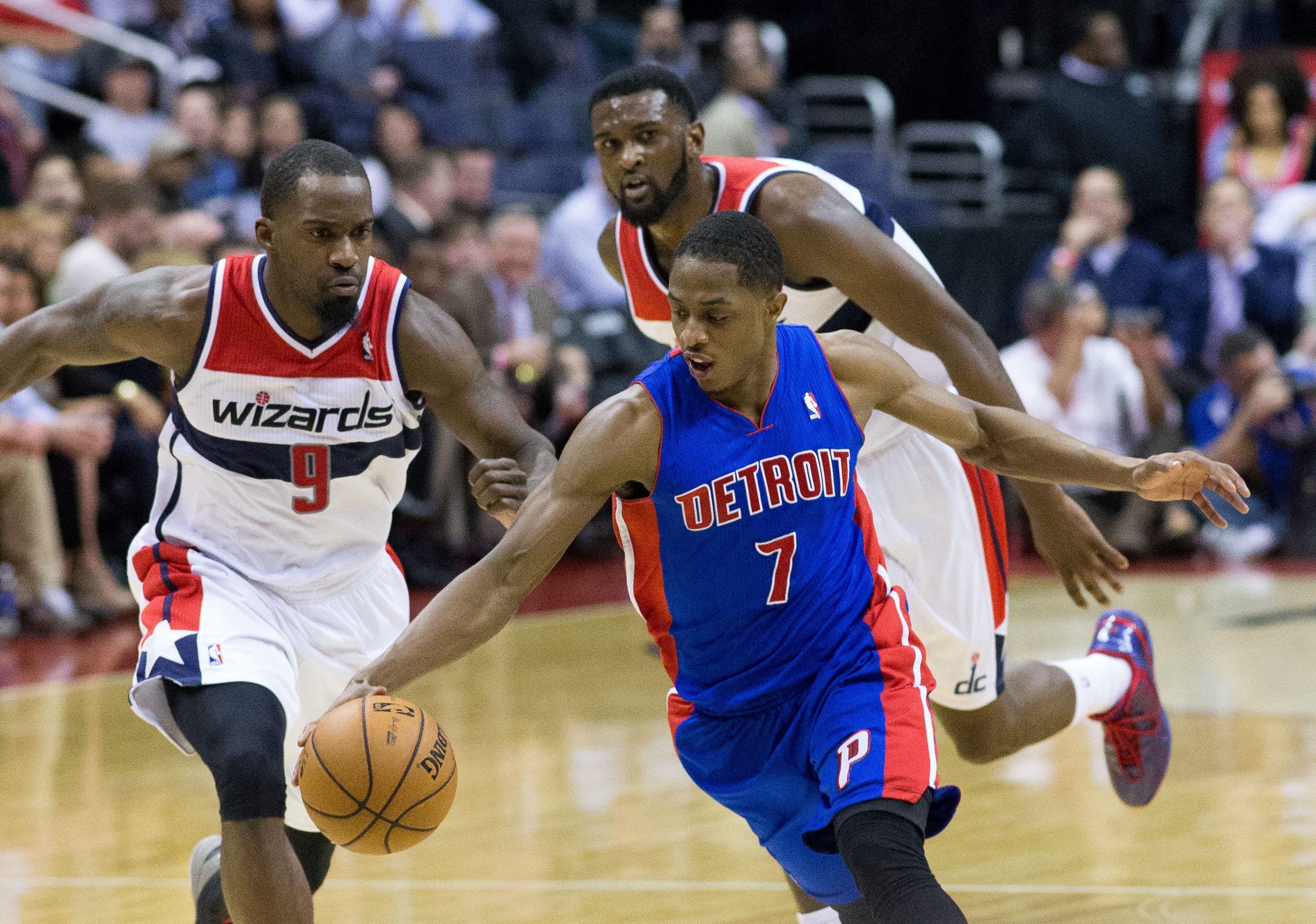 Detroit Pistons at Washington Wizards Feb 27, 2013